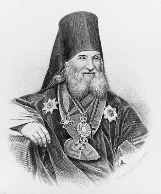 Ambrosius (Morev), Orthodox bishop of Penza